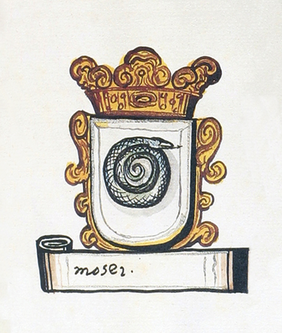 Coat of Arms of Moser (von Eggendorf)